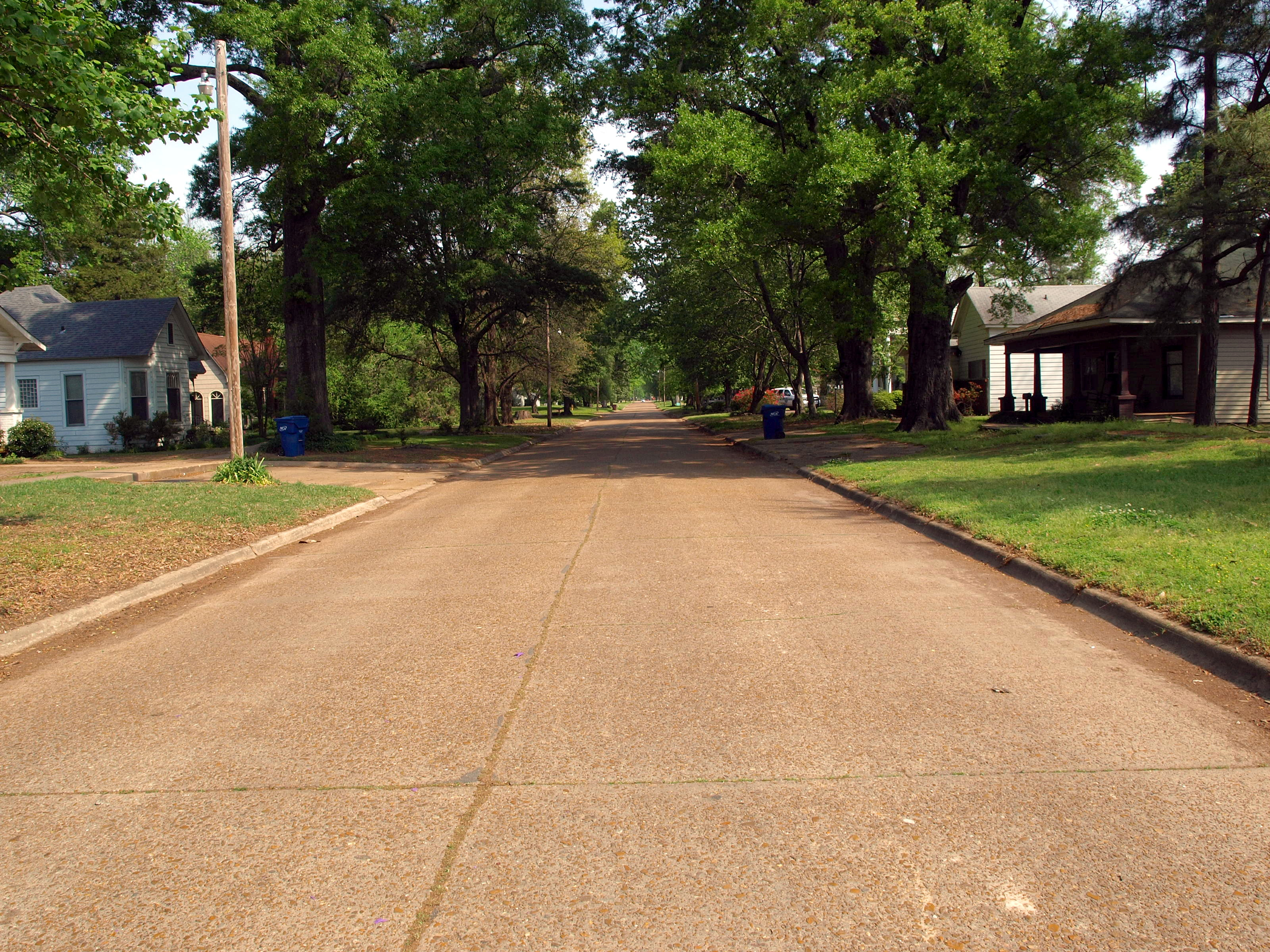 A section of New York Avenue in Brinkley, Arkansas, part of Brinkley's Concrete Streets, listed on the National Register of Historic Places.